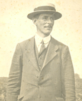 Lancelot Driffield, English cricketer active from 1900 to 1908 who played for Northamptonshire